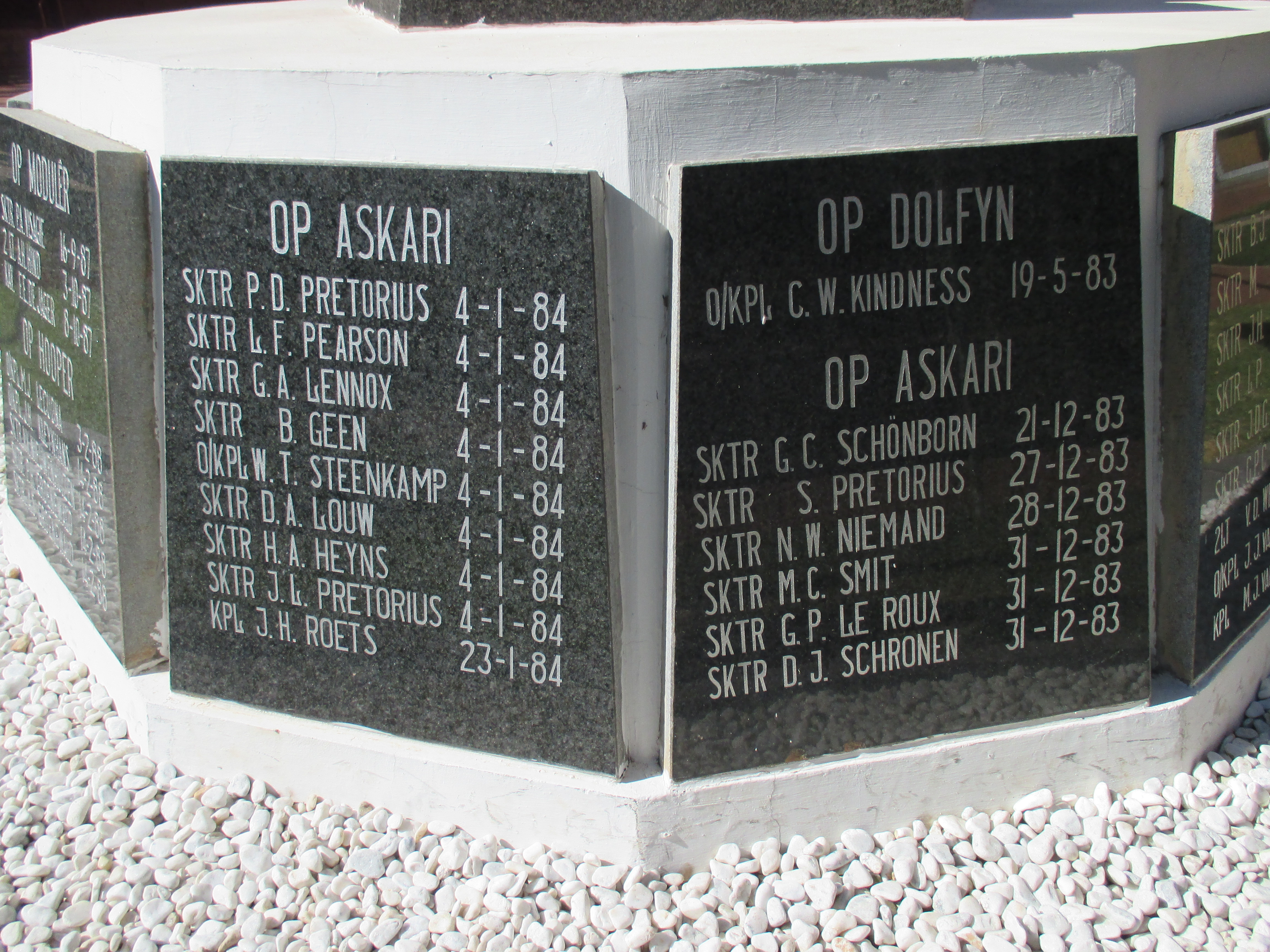 Description: Plaques honouring South African servicemen of the 61 Mechanised Battlegroup killed during Operations Dolfyn (1983) and Askari (1983-84), South African Border War.